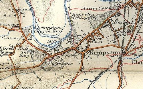 This map of Kempston in 1908 is centred on Kempston Urban District, which then had a population of just over 5,000. Kempston Rural District extends off the map to the north, west and south. A small part of Bedford appears top right. The bottom right is in the parish of Elstow and the land north of the river is in the parish of Biddenham.